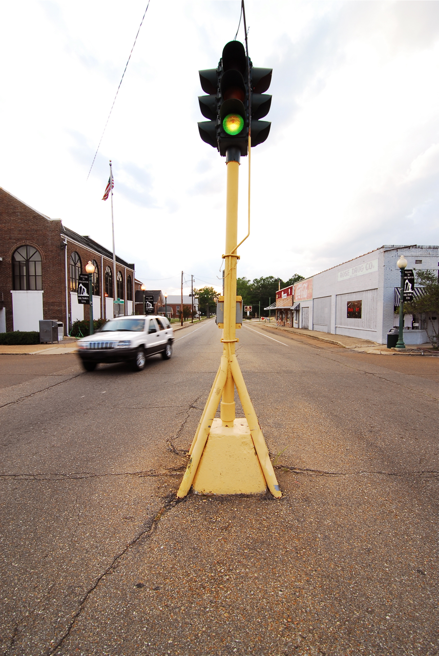 Historic traffic signal light in downtown